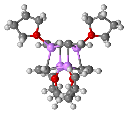 Structure of vinyllithium as its THF adduct.